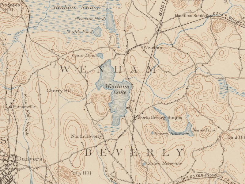 Wenham Lake, Wenham, Massachusetts, USA. USGS map from 1897 showing development at that time, including railroads for transporting Wenham ice.